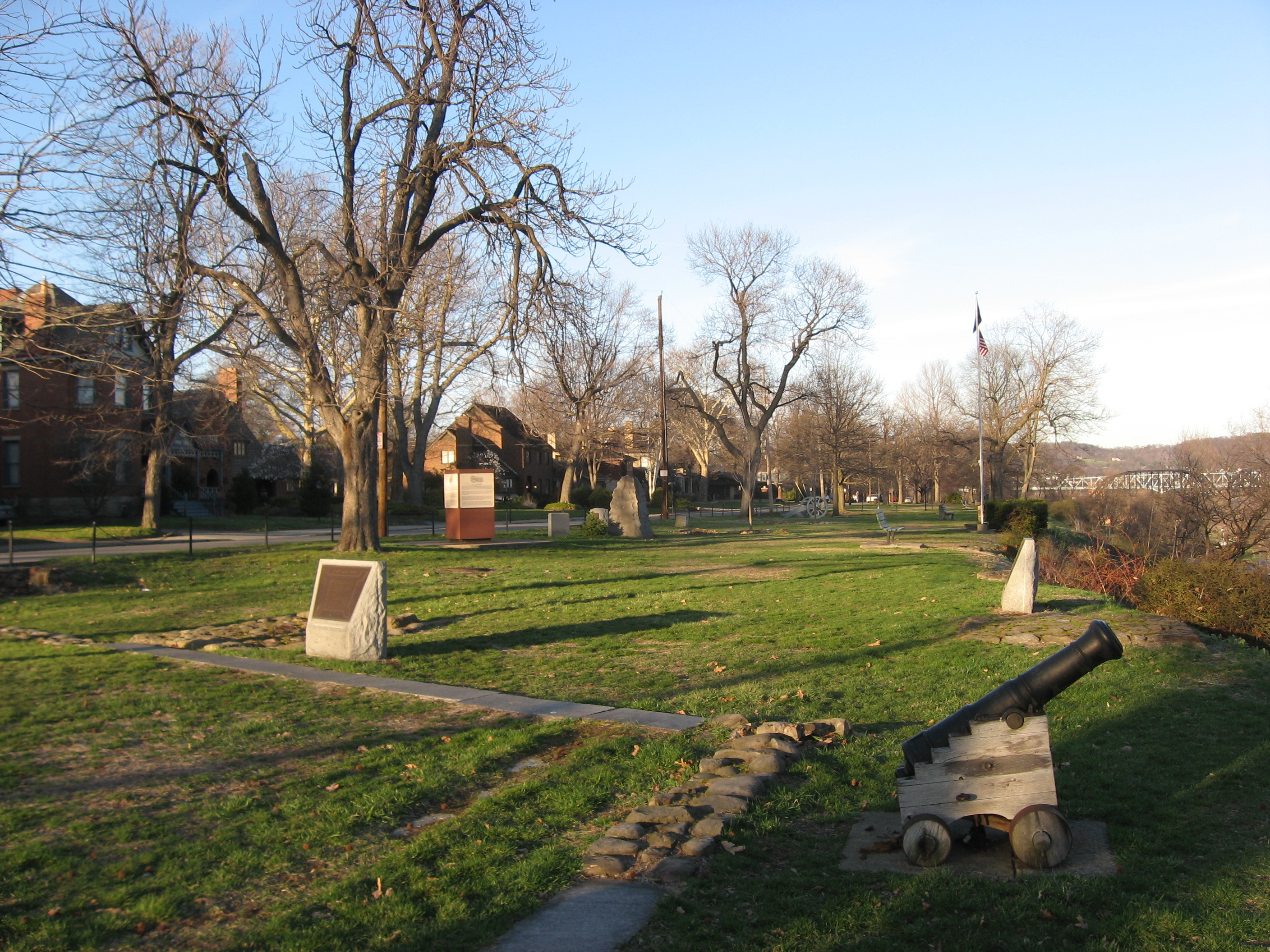 Looking east across the site of Fort McIntosh, located along the Ohio River at Beaver, Pennsylvania, United States. The first United States Army on the northern banks of the Ohio, the fort's site was rediscovered by archaeologists in the twentieth century and converted into a park. Lines of stones, such as the one in the middle of the foreground, are parts of the original foundation. Under the name of Fort McIntosh Site, the park is listed on the National Register of Historic Places. It is also a part of the Beaver Historic District, which is also listed on the Register.